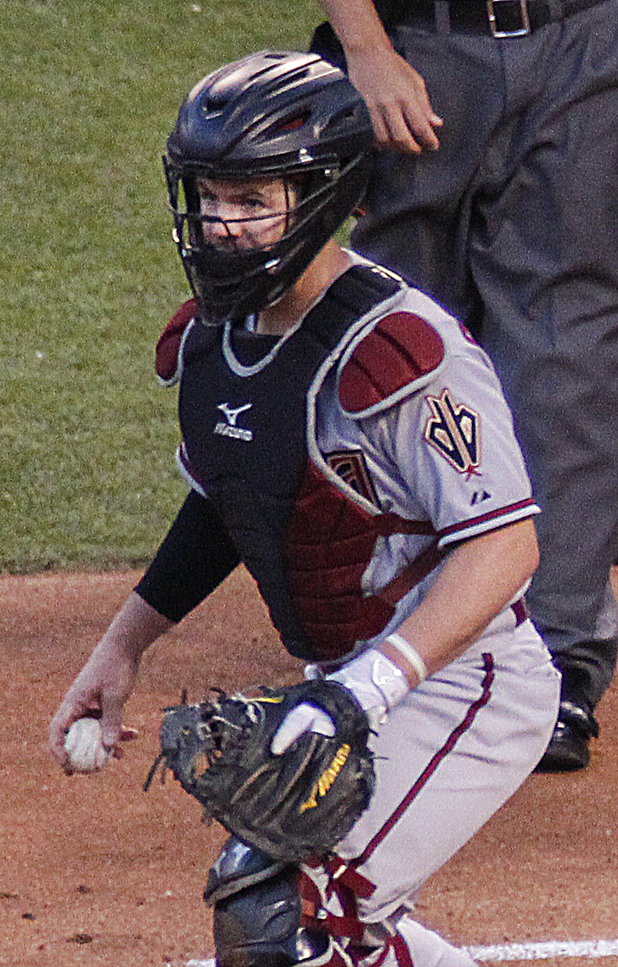 Diamondback catcher Tuffy Goesewisch 2015